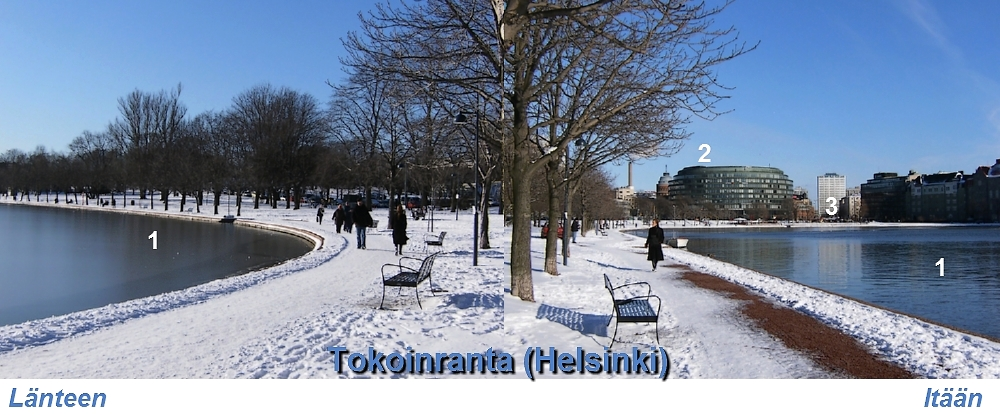 The park Tokoinranta in Kallio, Helsinki, Finland